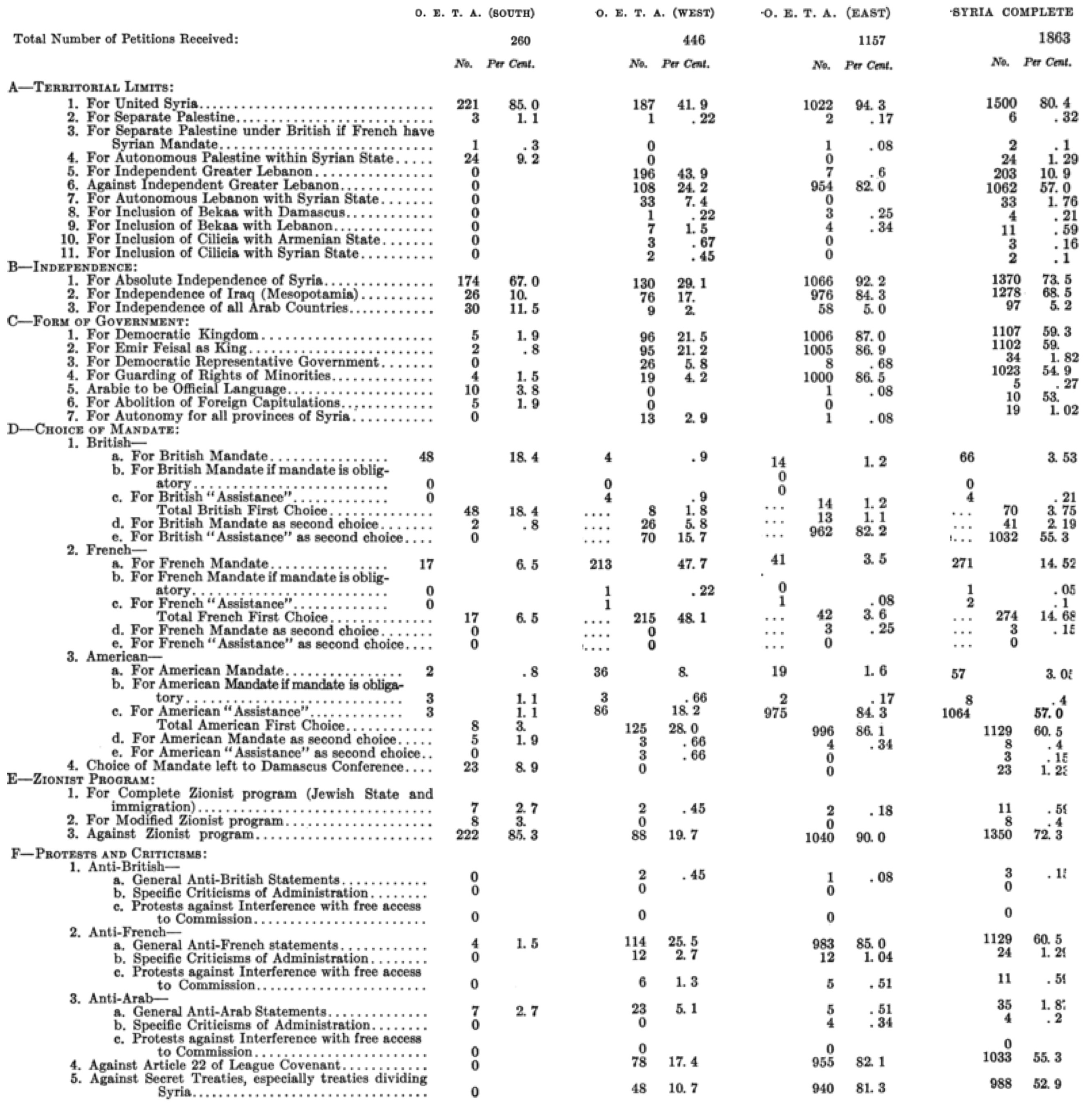 1919 King Crane Commission Report - Petition Opinion Poll Summaries in Syria, Palestine and Lebanon Considered the first opinion poll in the region